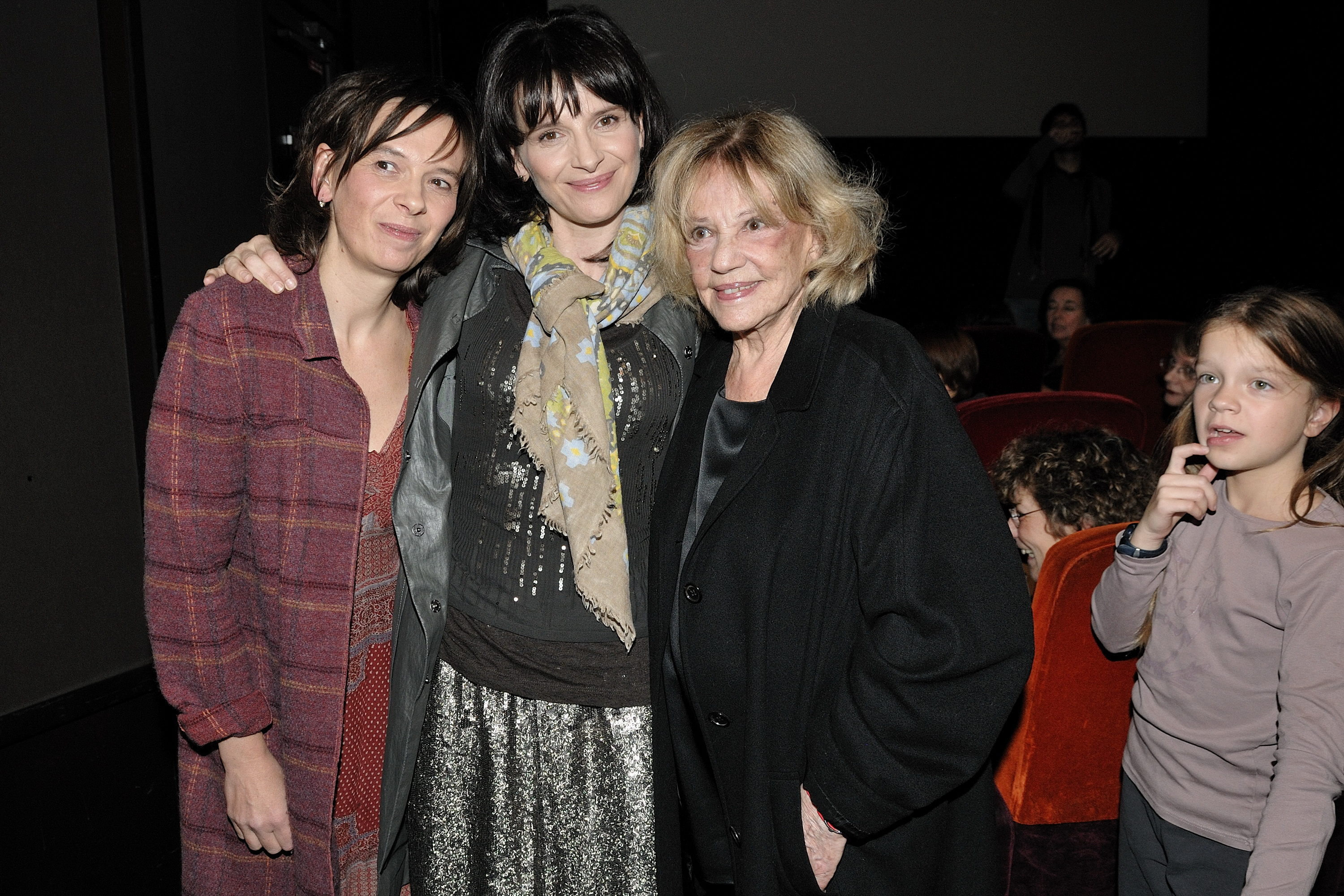 Juliette Binoche (French actress), her sister Marion Stalens (director), and Jeanne Moreau (French actress) pose prior to the screening of the movie 'Juliette Binoche dans les Yeux' held at the Elysee Biarritz movie theatre in Paris, France on October 22, 2009. Photo by Nicolas Genin/ABACAPRESS.COM